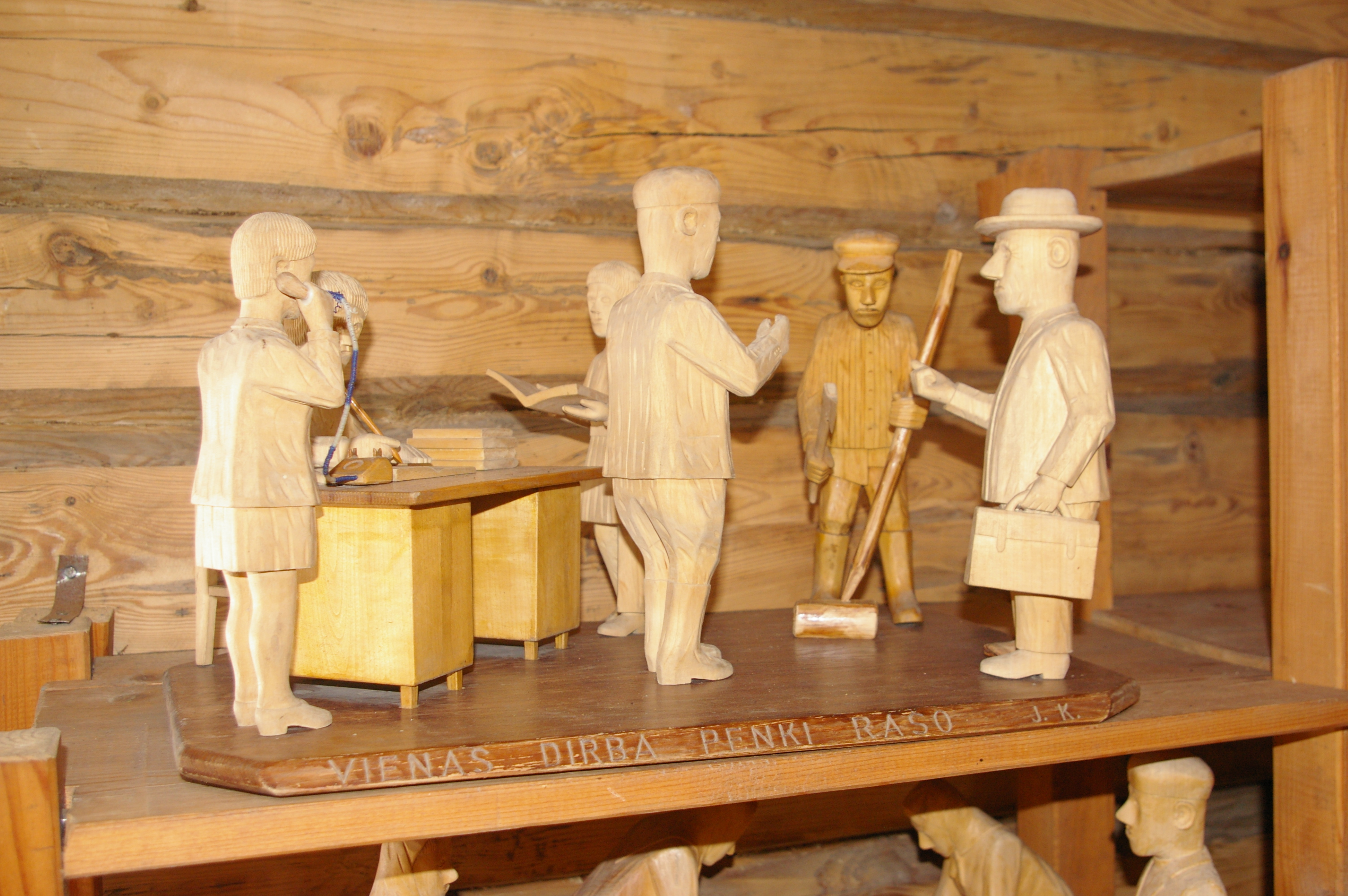 Carving of Lithuanian carver Jurgis Kazlauskas.